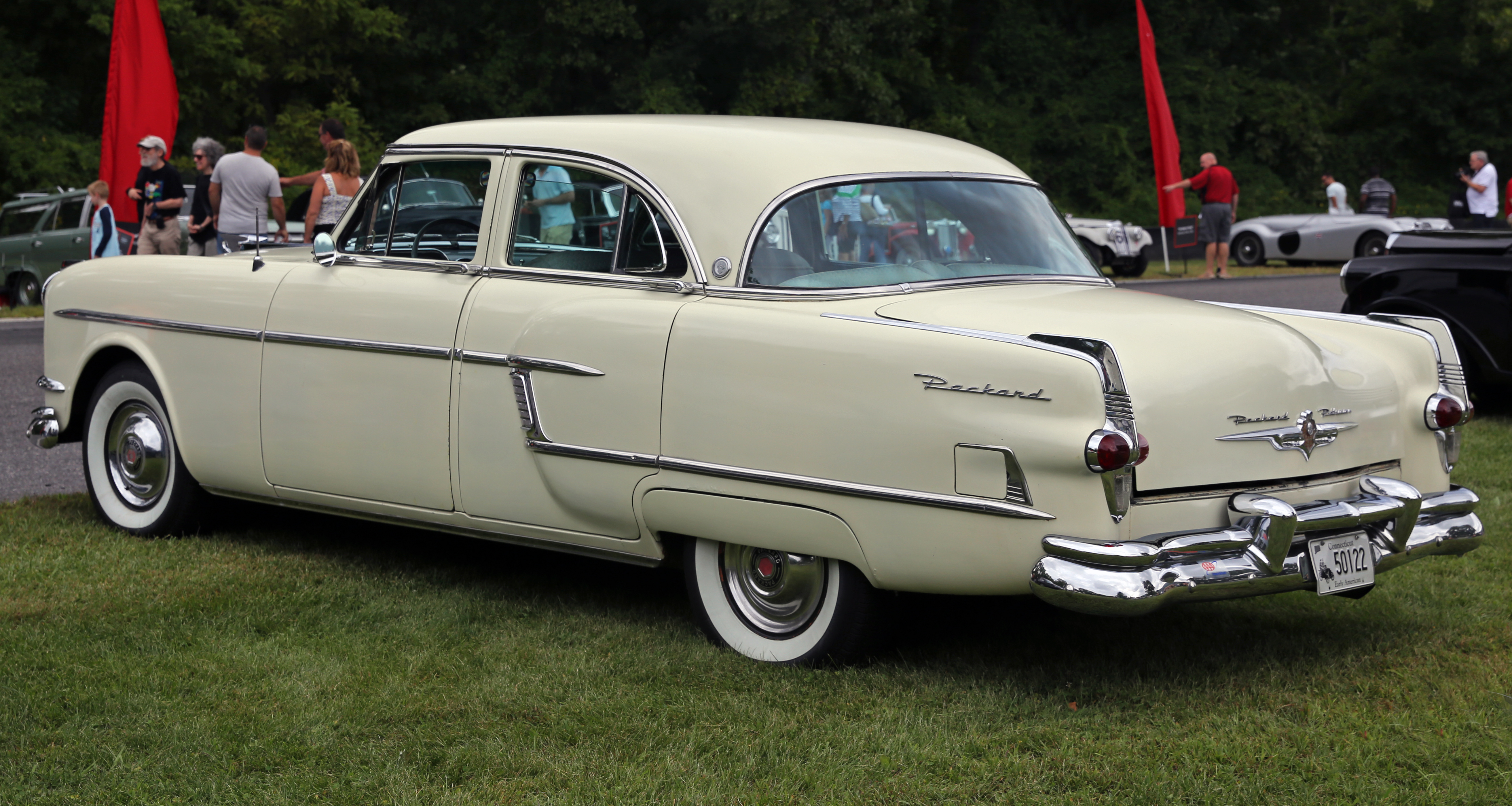 1954 Packard Patrician Touring Sedan at the 2014 Lime Rock Concours d'Élegance. Series 54, model number 5452. Desert Sand over Light Tan Broadcloth. It has the 359ci straight-eight and the Ultramatic transmission, and original AM radio with power antenna, left-hand rear view mirror, and foot rests. I didn't take a front photo as I assumed that there'd be dozens of them already in the Commons - silly me.